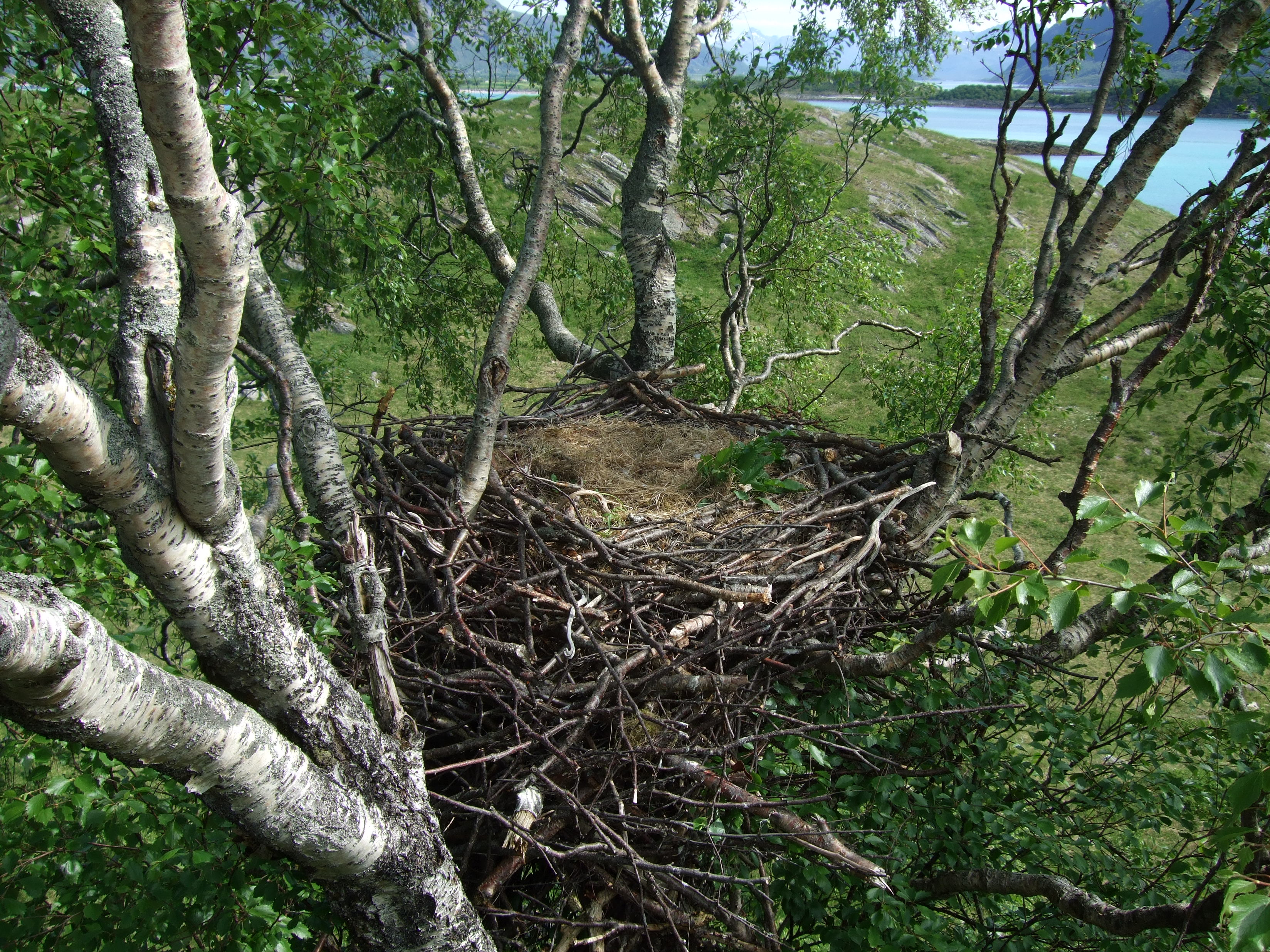 Empty nest of a White-tailed Eagle, location somewhere in Northern Norway